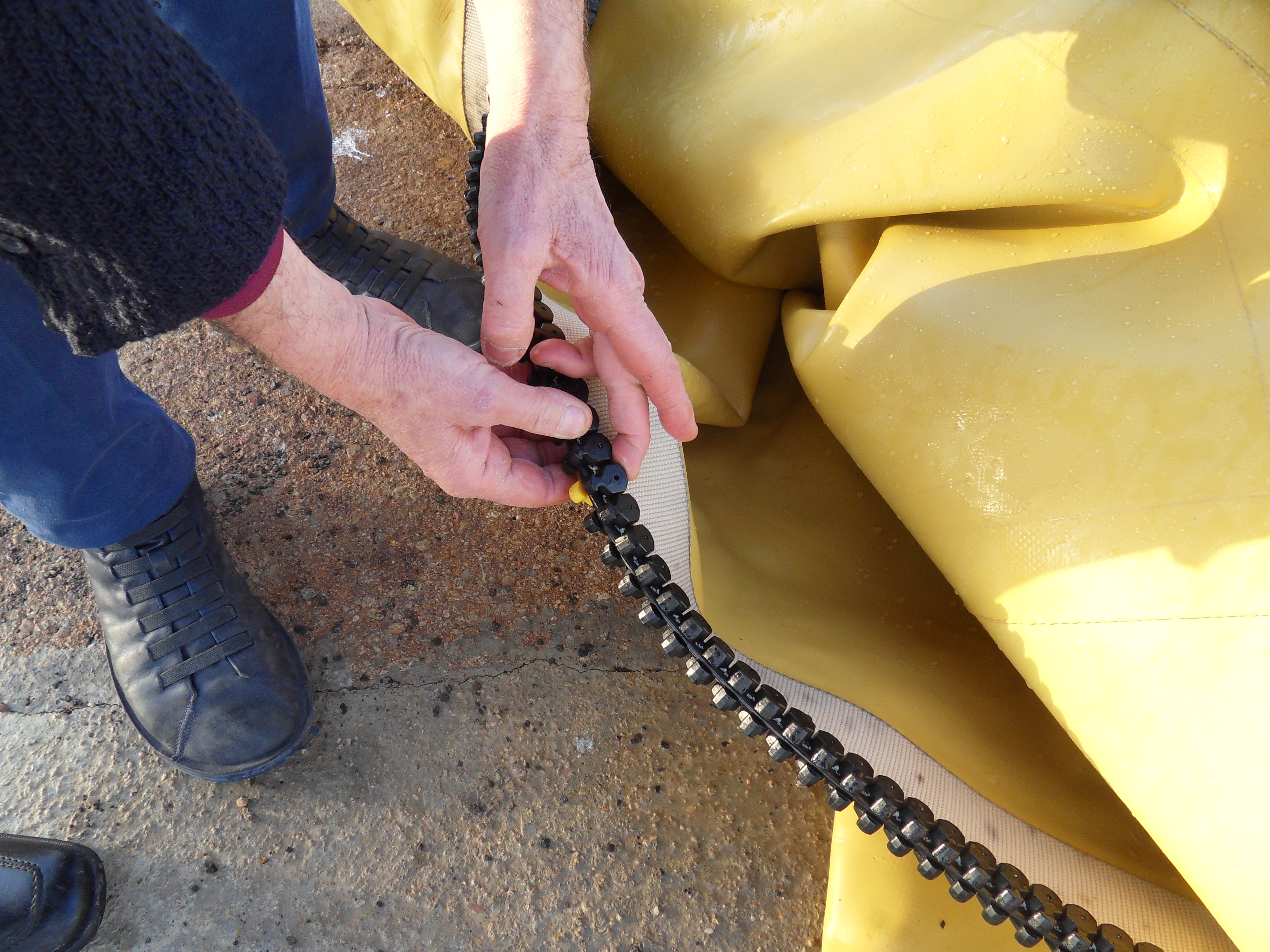 REFRESH fabric equipped with zipper